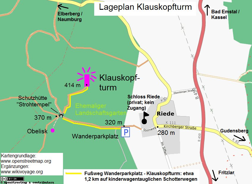 Germany / Hesse / Habichtswald: map look-out Klauskopf